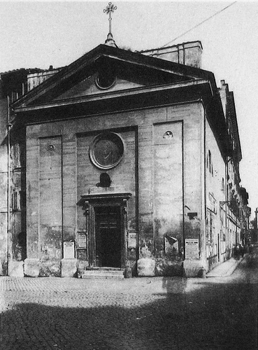 Old photograph of Santa Maria in Macello Martyrum, Roman church demolished in 1934